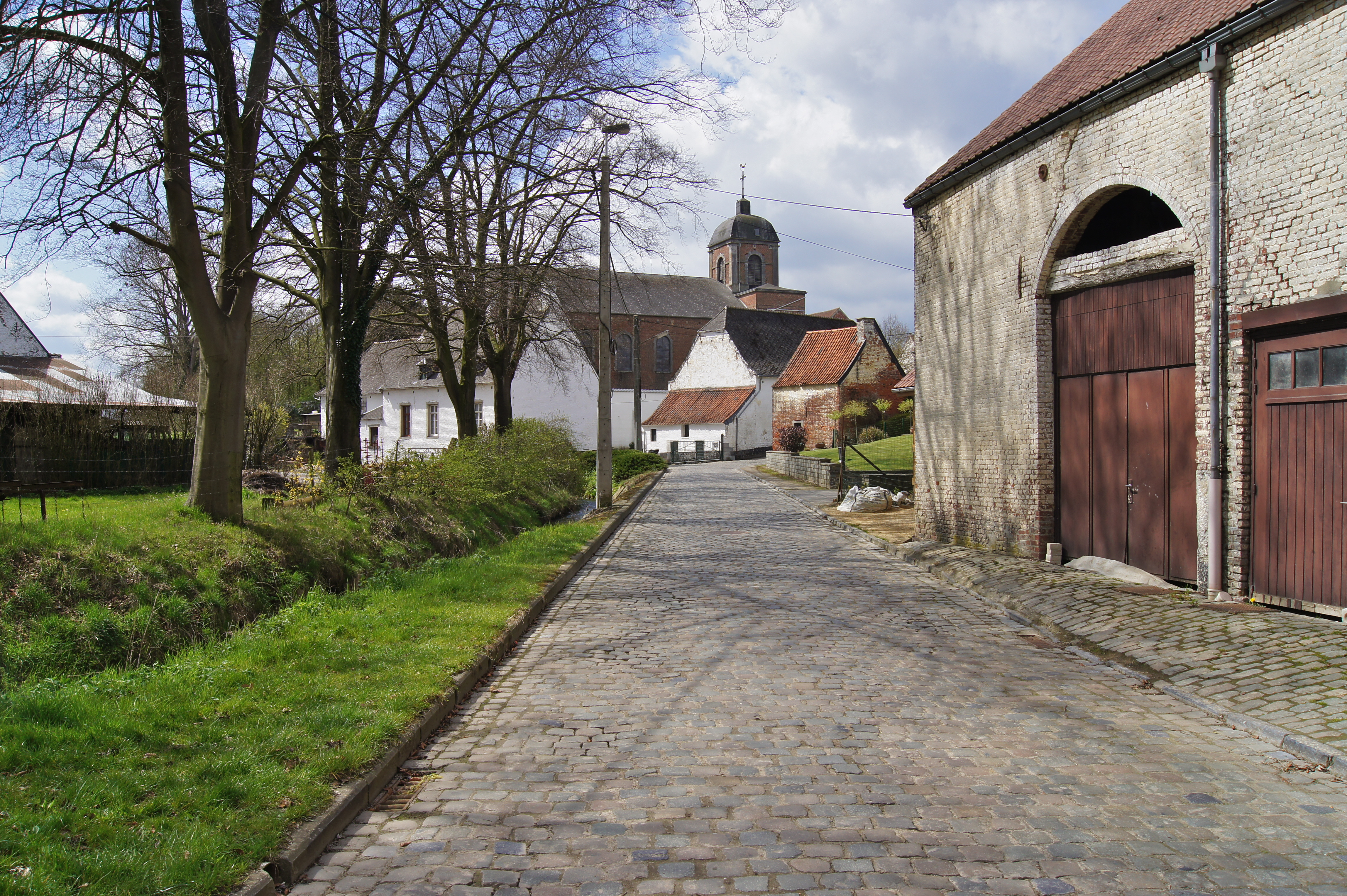 Genappe (Loupoigne), Belgium: Panorama and the river Dijle